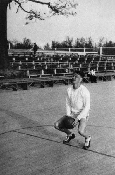 Photo of Stasys Šačkus shooting free throw in 1938.